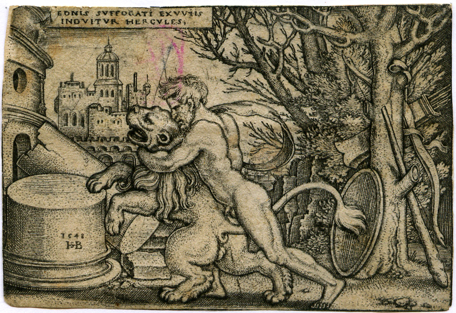 Beham, (Hans) Sebald (1500-1550): Hercules killing the Nemean Lion 1548, from The Labours of Hercules (1542-1548). Engraving. B. 106, Holl. 99 possibly i/ii.